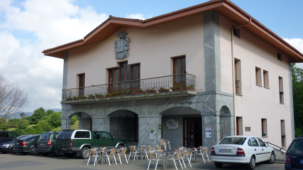 Townhall of Larraul